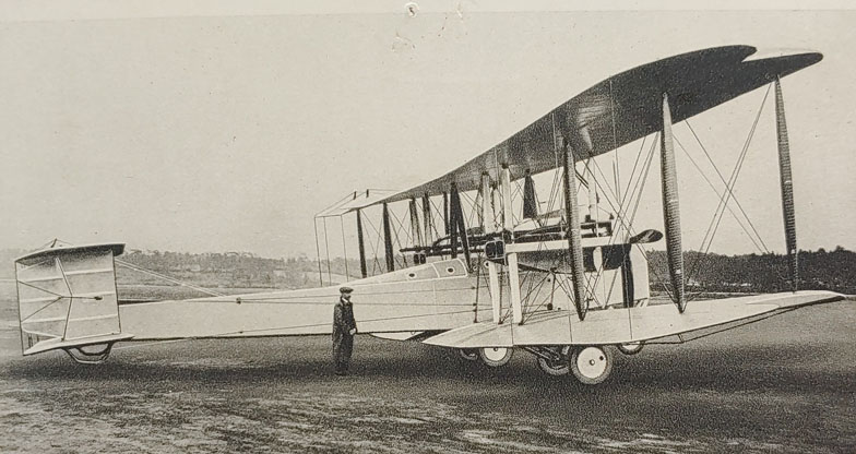 Vickers F.B.27 Vimy heavy bomber